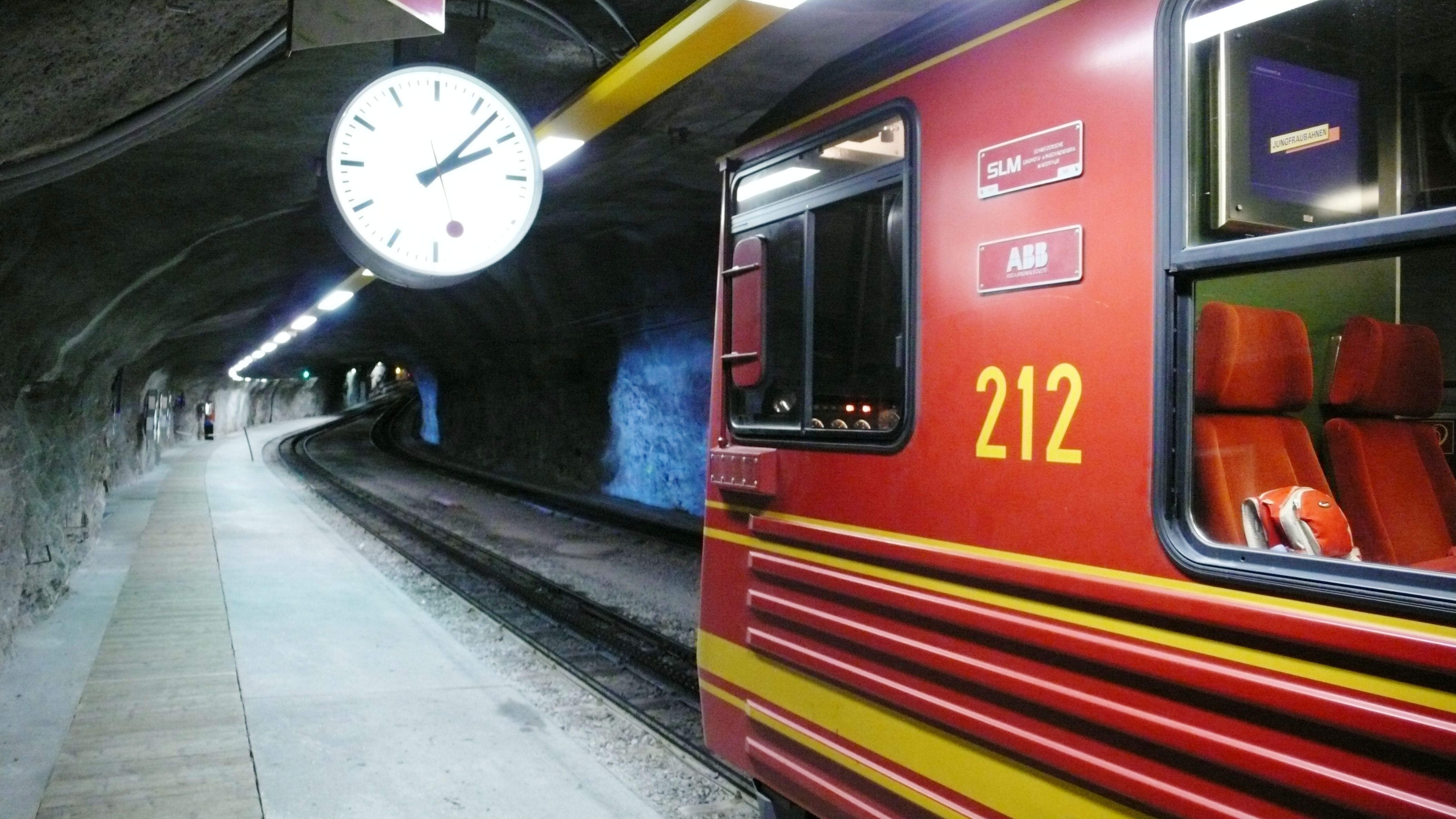 Train to Jungfraujoch (Switzerland)